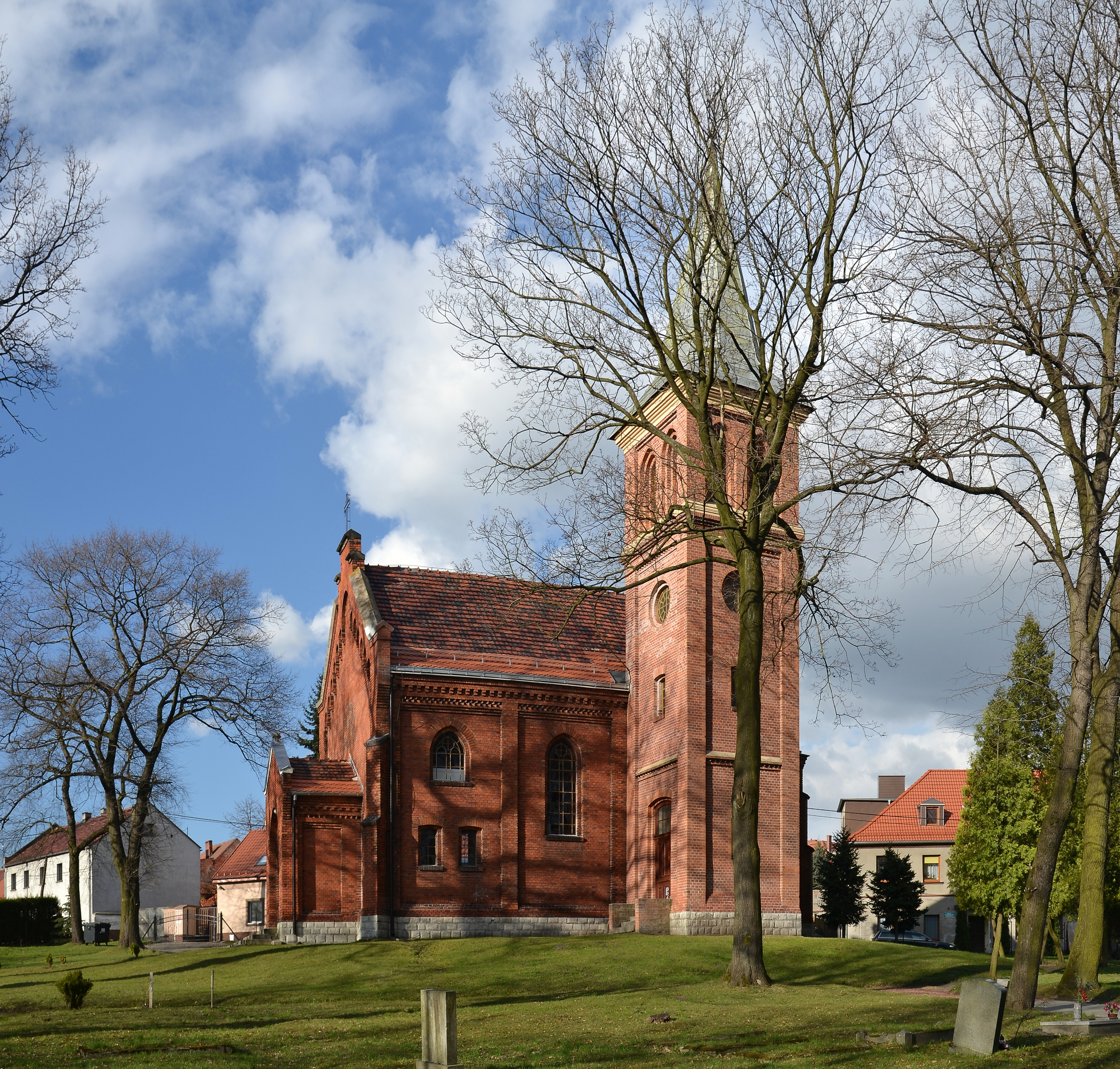 Pyskowice (Peiskretscham) - Saints Peter and Paul church